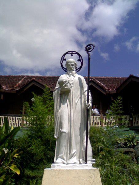 The Statue of Sylvester Gozzolini at St. Sylvester's College Kandy Sri Lanka